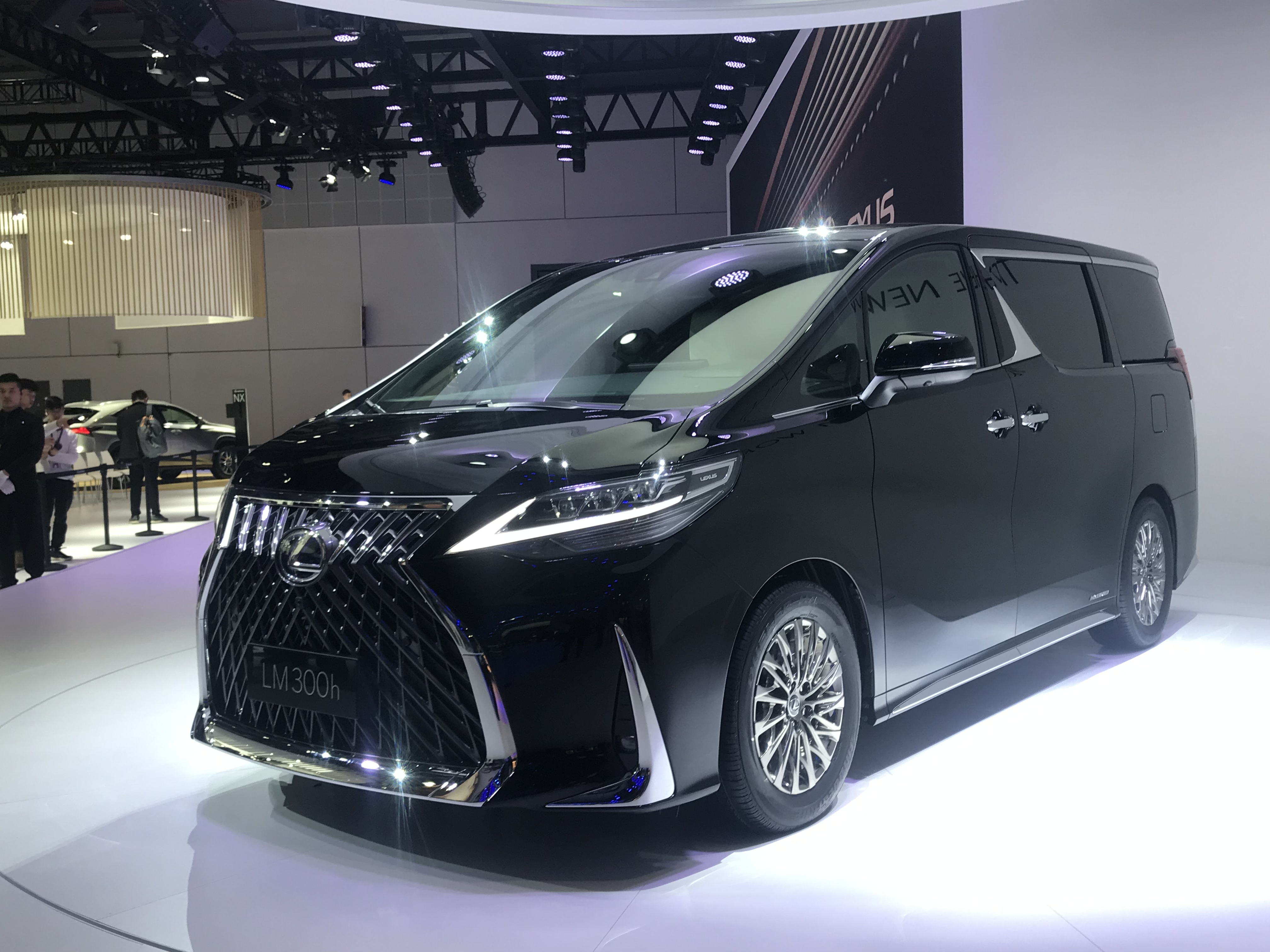 Lexus LM